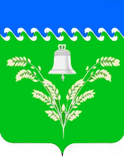 Coat of arms of Fiodorovskaya, Abinsk Raion, Krasnodar Krai, Russia.